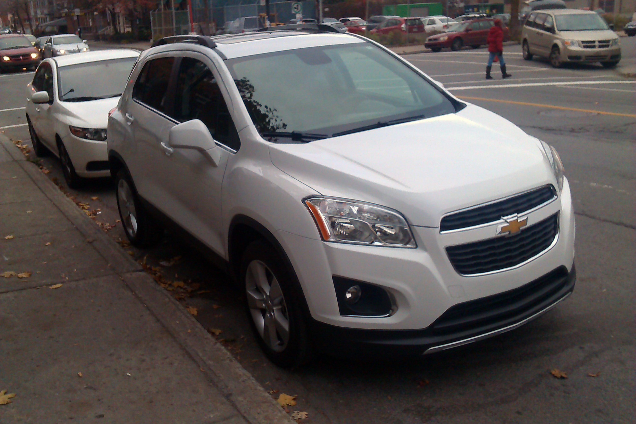 A 2013 Chevrolet Trax SL model parked in Montreal, Quebec, Canada